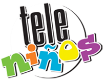 TeleNiños Logo, is a Canadian Category B Spanish language specialty channel owned by Telelatino Network